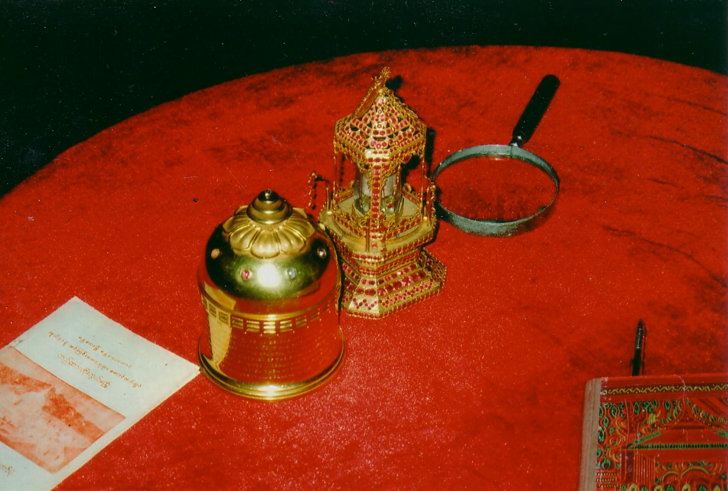 This picture is of the ruby and gold relic casket holding a crystal reliquary with three fragments of bone, believed to be relics of Gautama Buddha, buried by the Kushan Emperor Kanishka in the 2nd century A.D. at his stupa in Peshawar (now in Pakistan) from where they were sent by the British for safekeeping to Mandalay, Burma in 1910. To the left of the ruby and gold casket is a miniature golden stupa in which the relics were transported to Mandalay